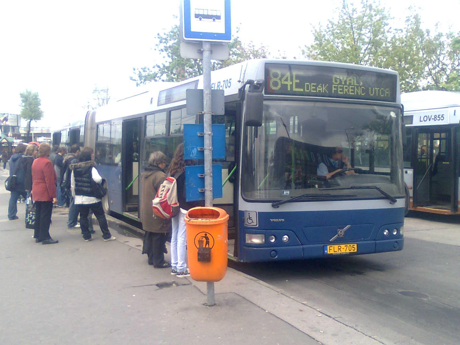 84E bus